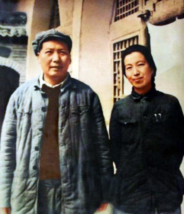 Mao Zedong and Jiang Qing, 1946